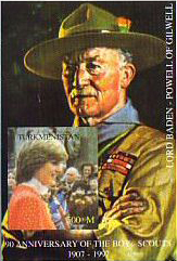 scan from the collection of Chris Fitch, (Kintetsubuffalo) , user talk:Kintetsubuffalo(t) This work is not an object of copyright according to the Civil Code of Turkmenistan of July 17, 1998. Article 1061. Works that are not Objects of Copyright: a) formal documents (laws, judgments, other texts of administrative and legal nature), and also their official translations; b) state symbols and signs (flag, coat of arms, anthem, awards, banknotes and other signs); c) reports on events and facts, which have a purely informational character; d) works of folk arts. No substitute is available under a free license, nor could one be created that would provide the same information. This image is used solely for the purpose of illustrating the topic in question, and does not impair the copyright holder's ability to sell the original work in any way. As this image is a single stamp, and offsized from the original, it would not be useful for criminal reproduction, and therefore the use of this image does not pose a threat to the salability of the original.